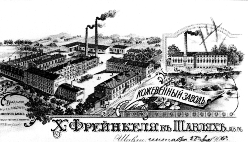 Logo of Chaimas Frenkelis tannery in Šiauliai, 1906